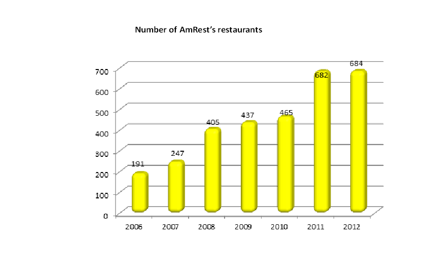 Number of AmRest's restaurants